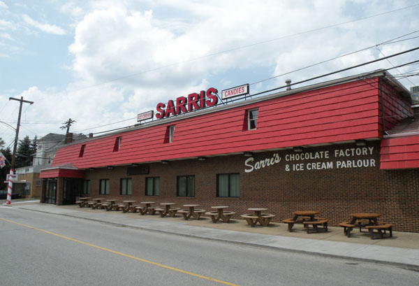 Picture of Sarris Candies Inc. store located at 511 Adams Avenue in Canonsburg, Pennsylvania, on May 1, 2010.